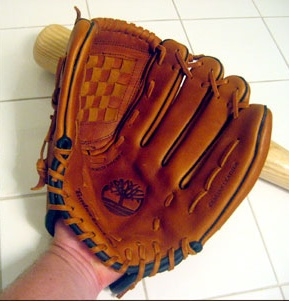 The front of a baseball glove with a baseball bat behind